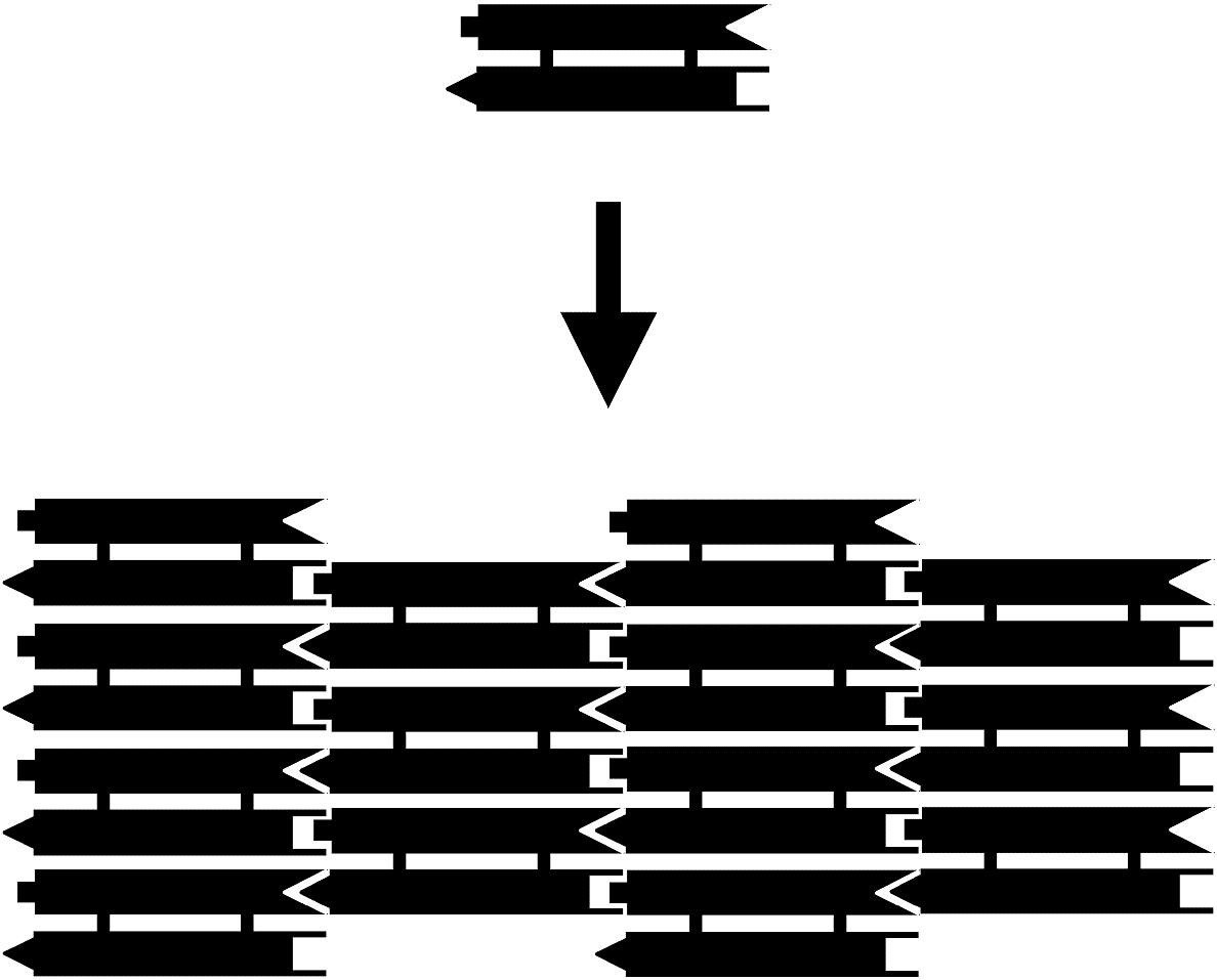 Figure 2. Self-Assembly of a 2D DX Array. Each rod represents a DNA duplex. The geometric complementarity represents the sequence complementarity of sticky ends.